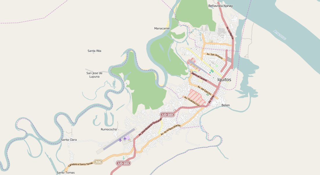 Iquitos This map of Iquitos was created from OpenStreetMap project data, collected by the community. This map may be incomplete, and may contain errors. Don't rely solely on it for navigation.